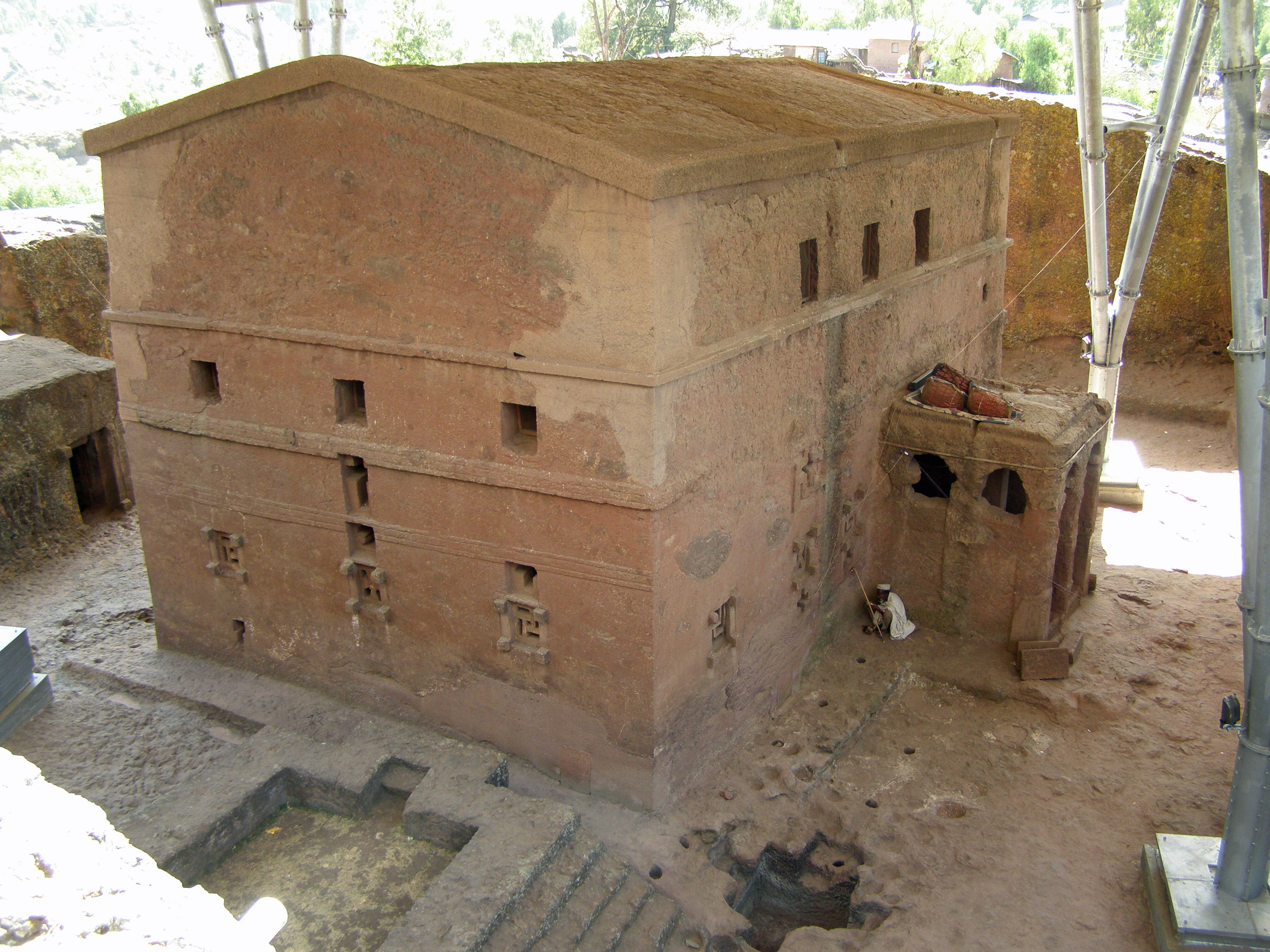 Ethiopia - Lalibela - Bette Maryam - Monolithic church of the North group